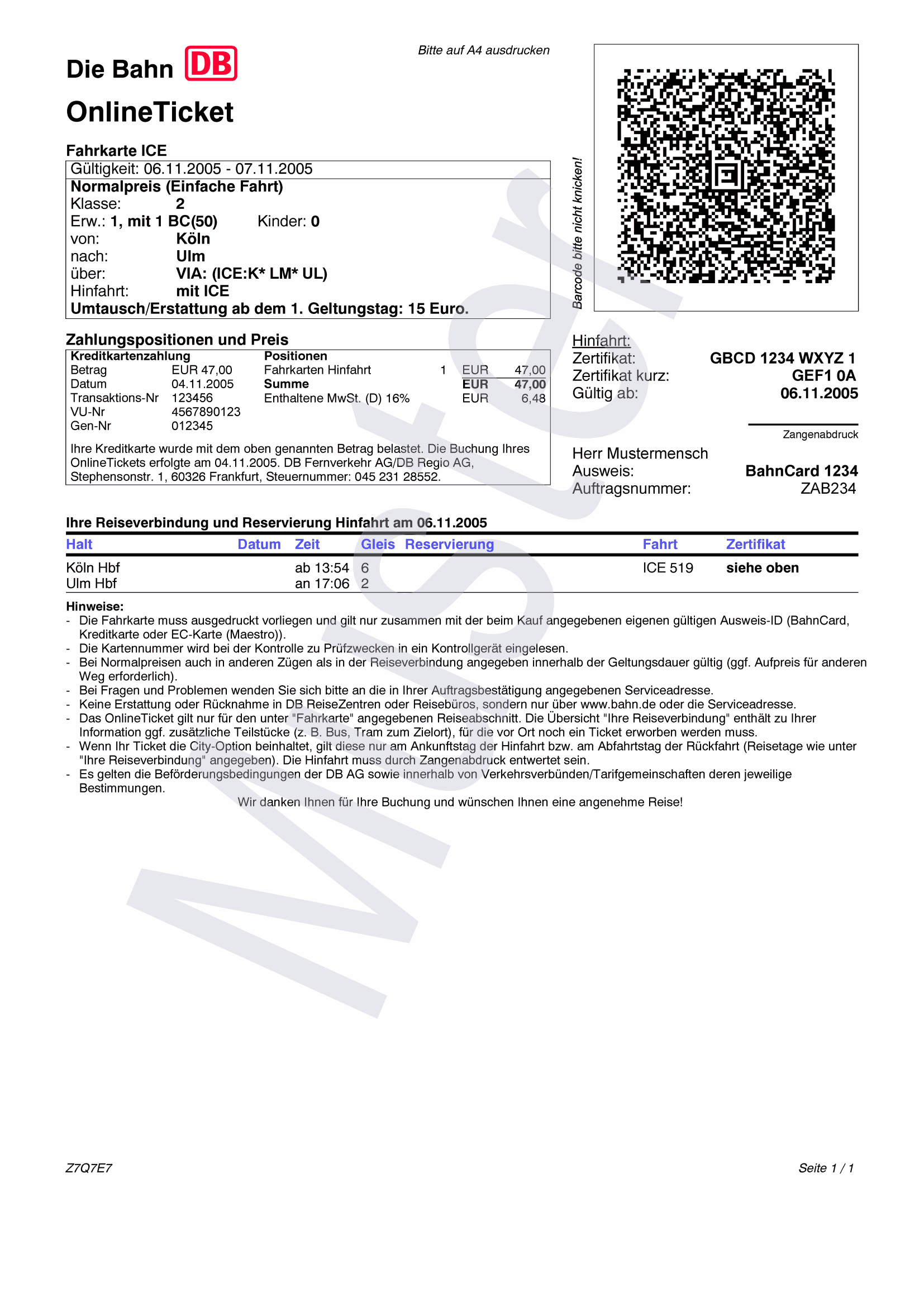 A sample version of an online-ticket of the german railway. This ticket is not valid for travel and does not contain any valid information about order number, credit card, or ticket ID, not even in the DataMatrix code. The image file has 64 colors at 200 DPI.